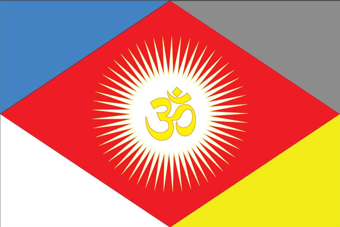 God Virat Viswakarma Flag